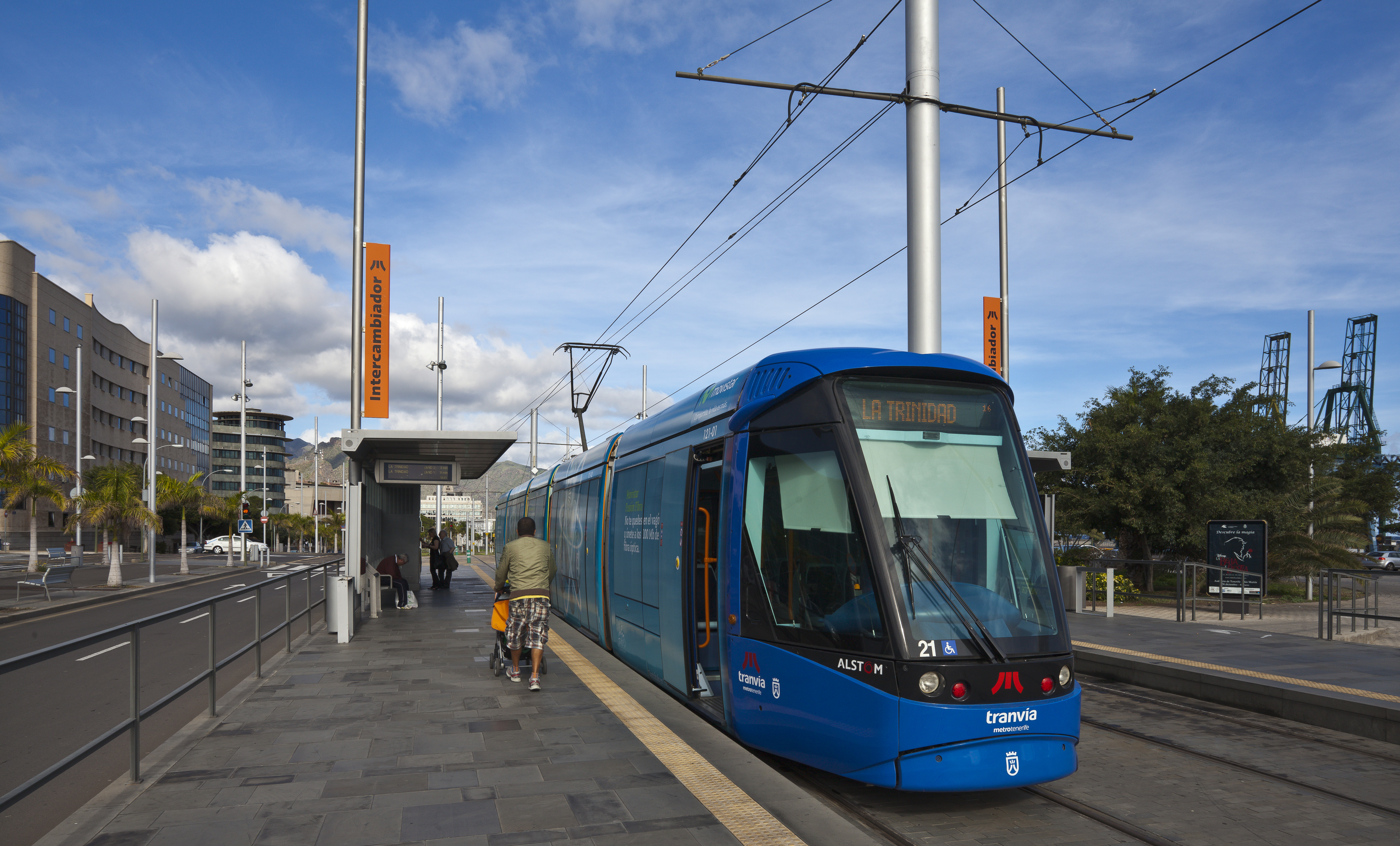 Tram, Santa Cruz de Tenerife, Spain